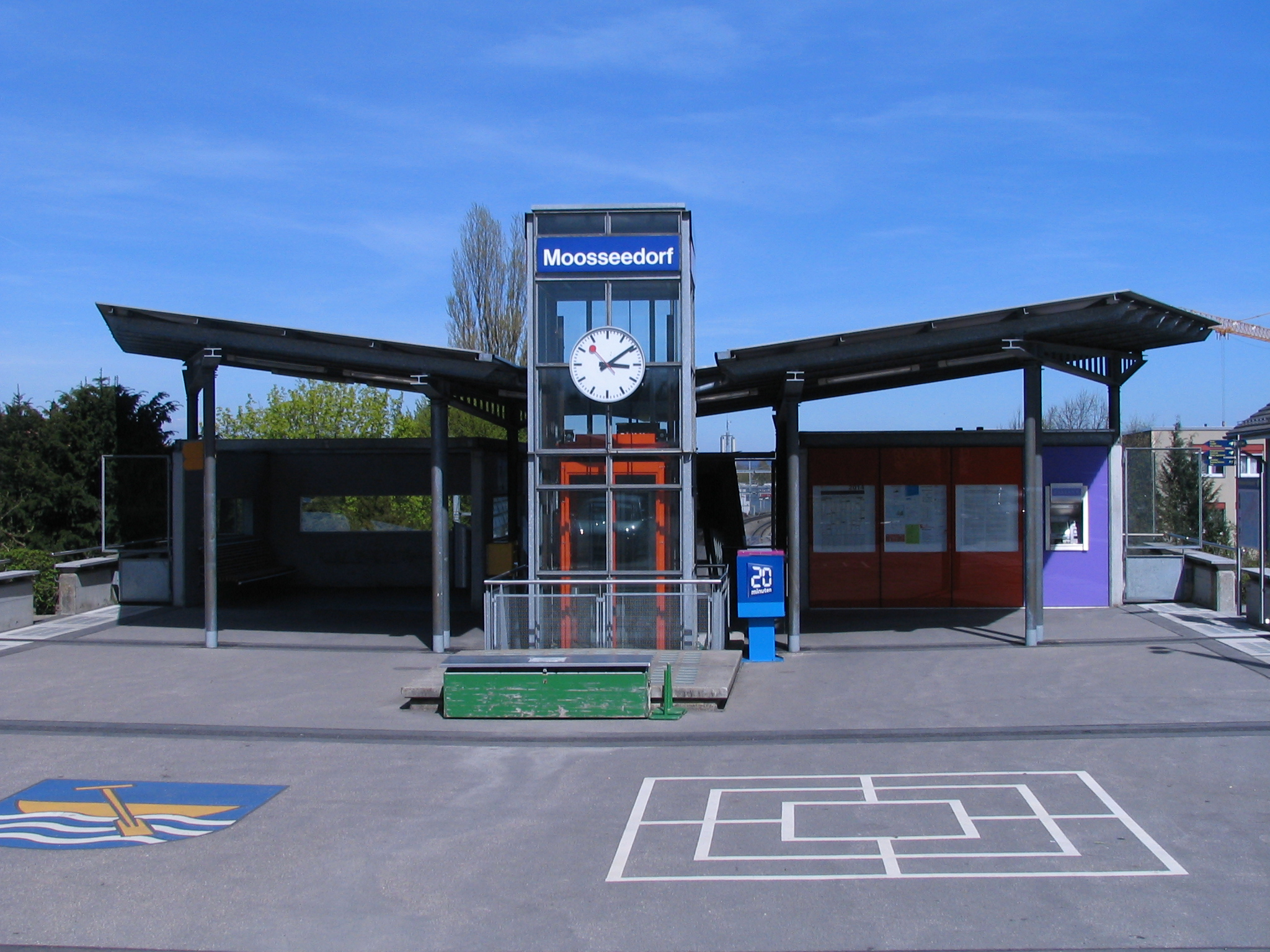 The Max-Bill-Square as train station square above the railways